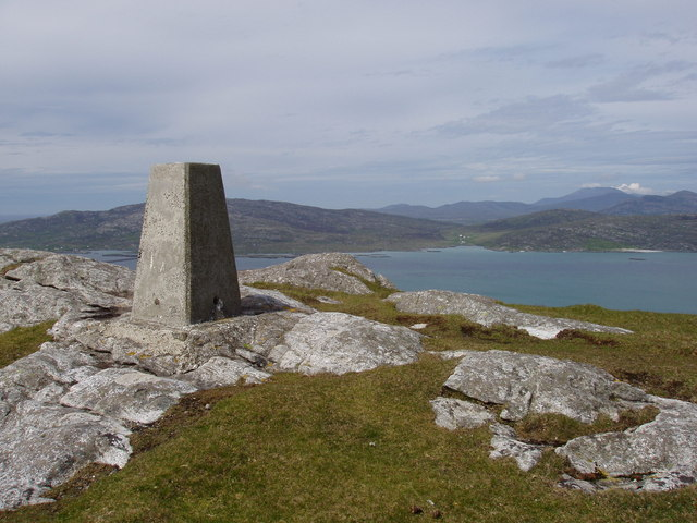 Beinn Sciathan Triangulation Point Looking North to South Uist